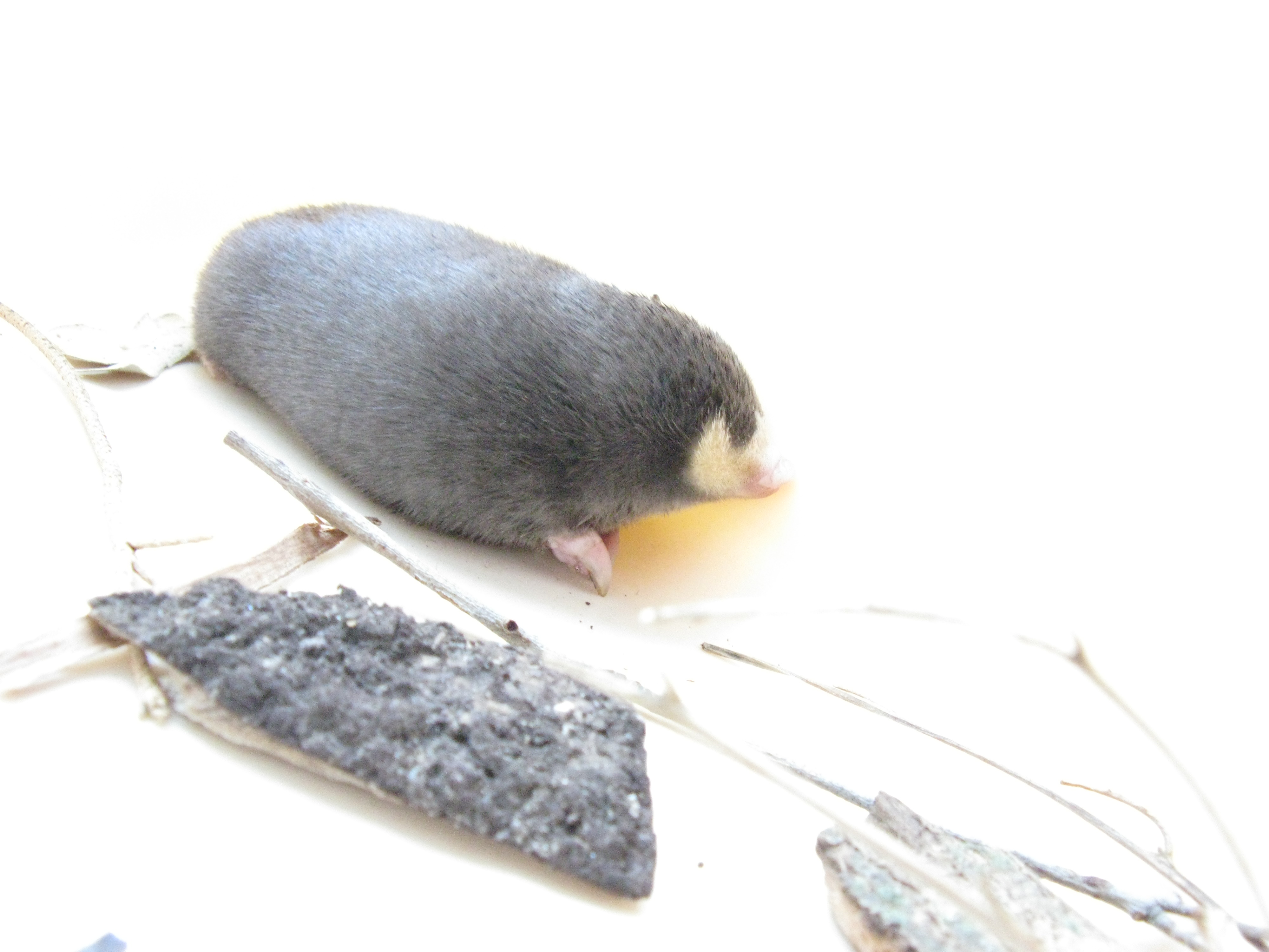 Chrysochloris asiatica Cape golden mole adult above ground